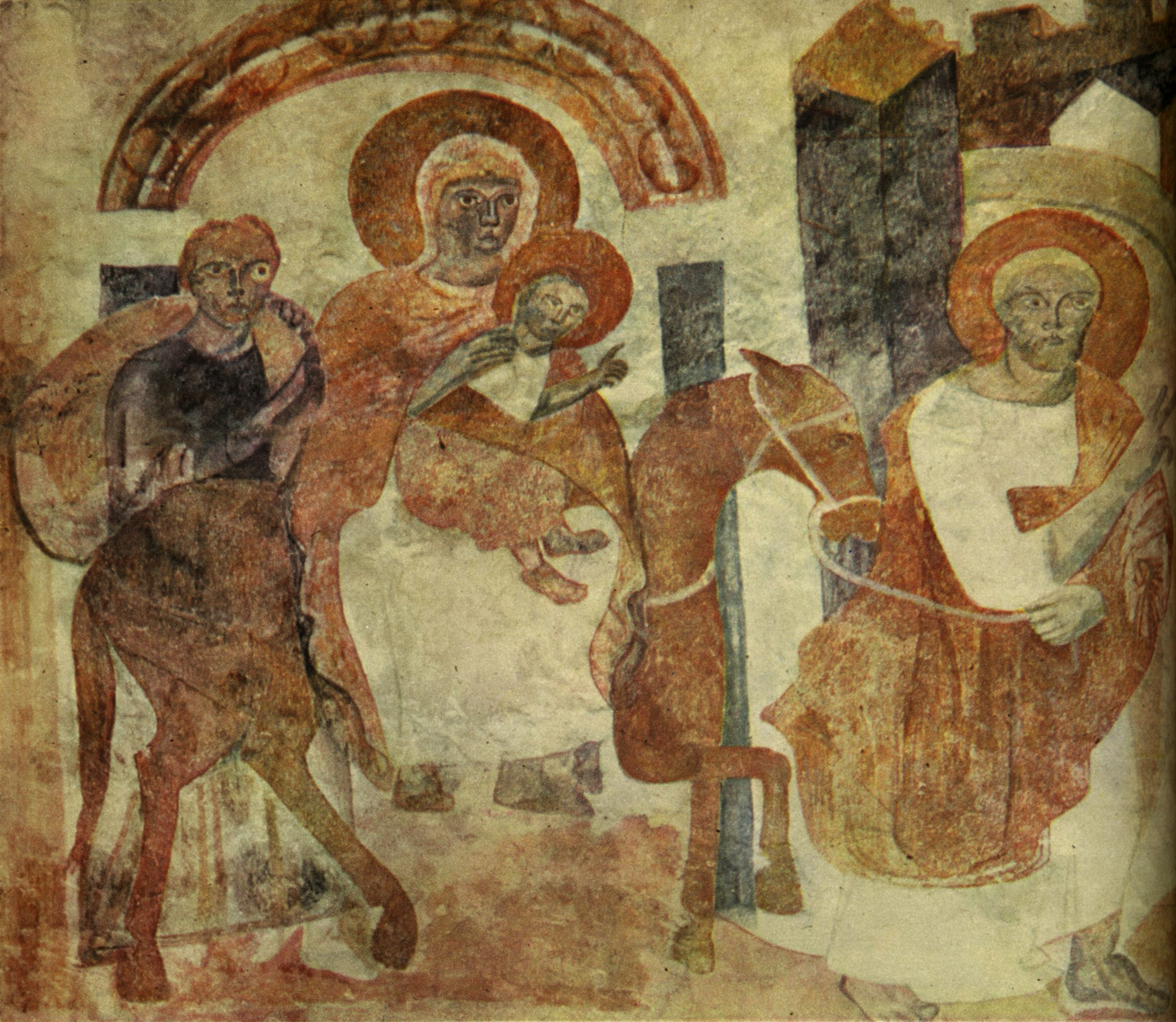 The Flight into Egypt. Carolingian fresco on the north wall of the nave of the Monastery Church of Saint John in Müstair, Switzerland, ca. 825.